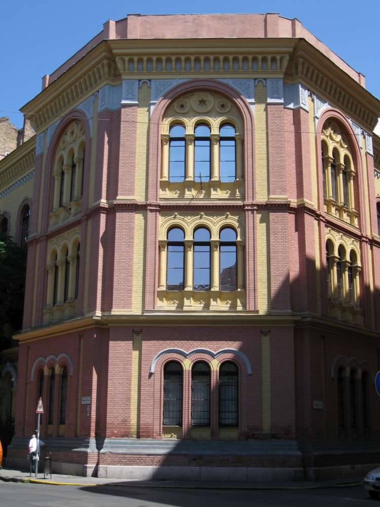 Hungarian National Rabbinical Seminary (2009); Budapest